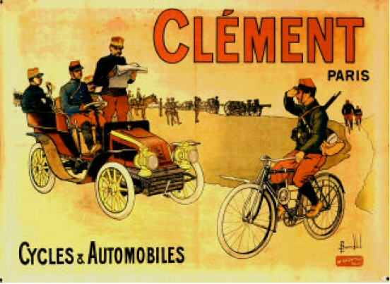 Low resolution image of 1903 original poster Advertising Clement Cycles and Automobiles. The authorised copy of the image is held at the Musee_Automobile_de_Reims.